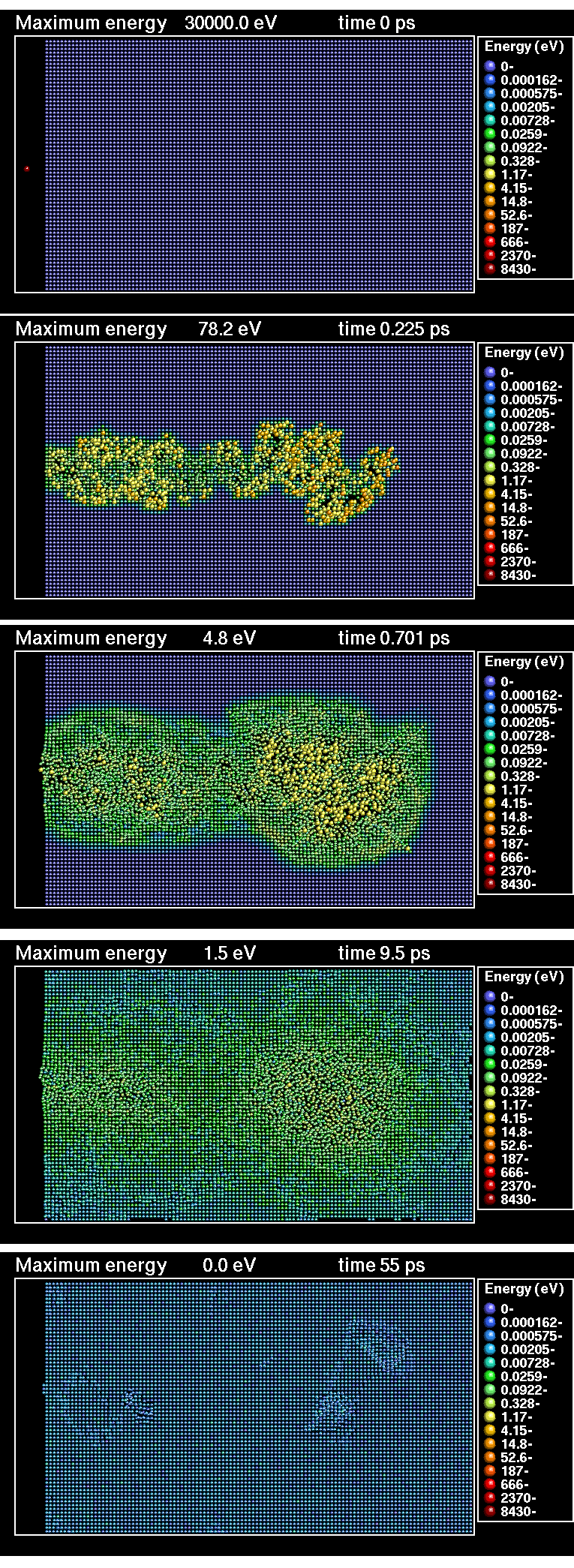 Image sequence of a collision cascade in the heat spike regime produced by a 30 keV Xe ion impacting on Au under channeling conditions, obtained by molecular dynamics computer simulations The image shows a cross section of two atomic layers in the middle of a threedimensional simulation cell. Each sphere illustrates the position of an atom, and the colors show the kinetic energy of each atom as indicated by the scale on the right. The atom size is also proportional to the energy, so that higher-energy atoms are somewhat larger.